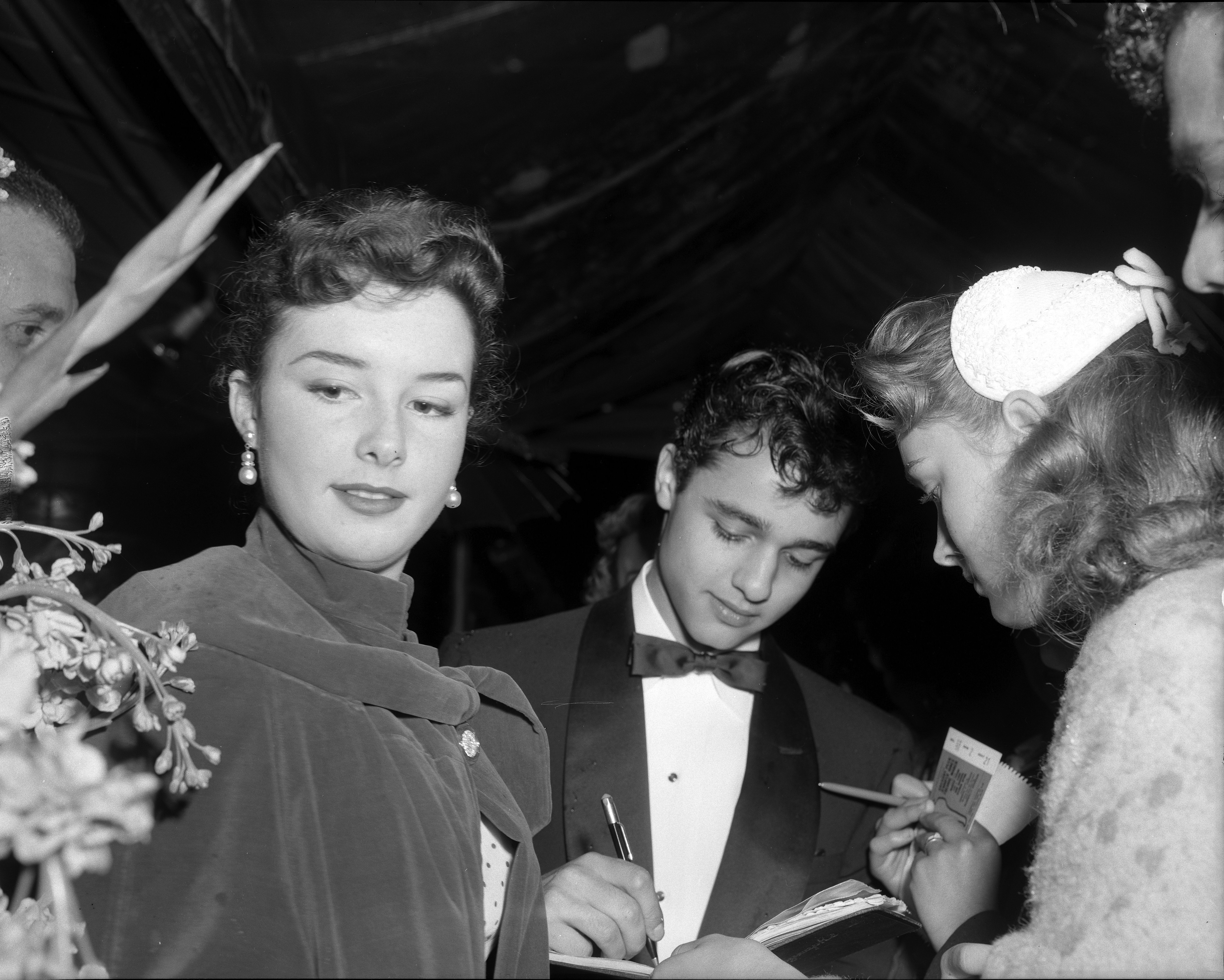 Actors Sal Mineo and Gigi Perreau at the premiere of The Man in the Gray Flannel Suit in Grauman's Chinese Theatre